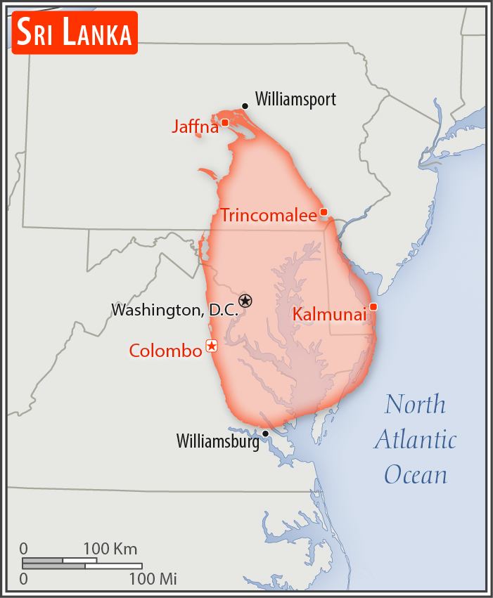 Comparison of the areas of two country. The area of Sri Lanka with biggest cities (red) overlay the area of the United States of America (gray background).